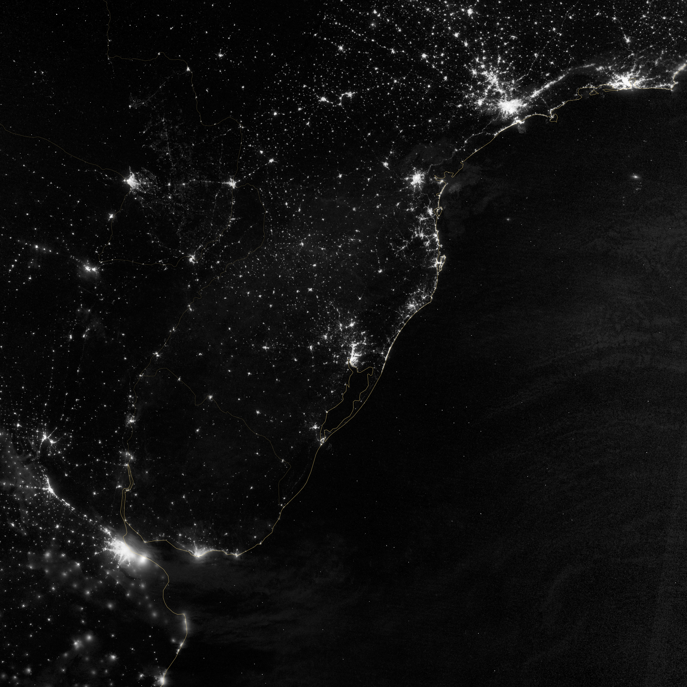 This image of part of the Atlantic coast of South America was acquired by the Suomi NPP satellite on the night of July 20, 2012. The image was made possible by the “day-night band” of the Visible Infrared Imaging Radiometer Suite (VIIRS), which detects light in a range of wavelengths from green to near-infrared and uses filtering techniques to observe dim signals such as city lights, gas flares, auroras, wildfires, and reflected moonlight.